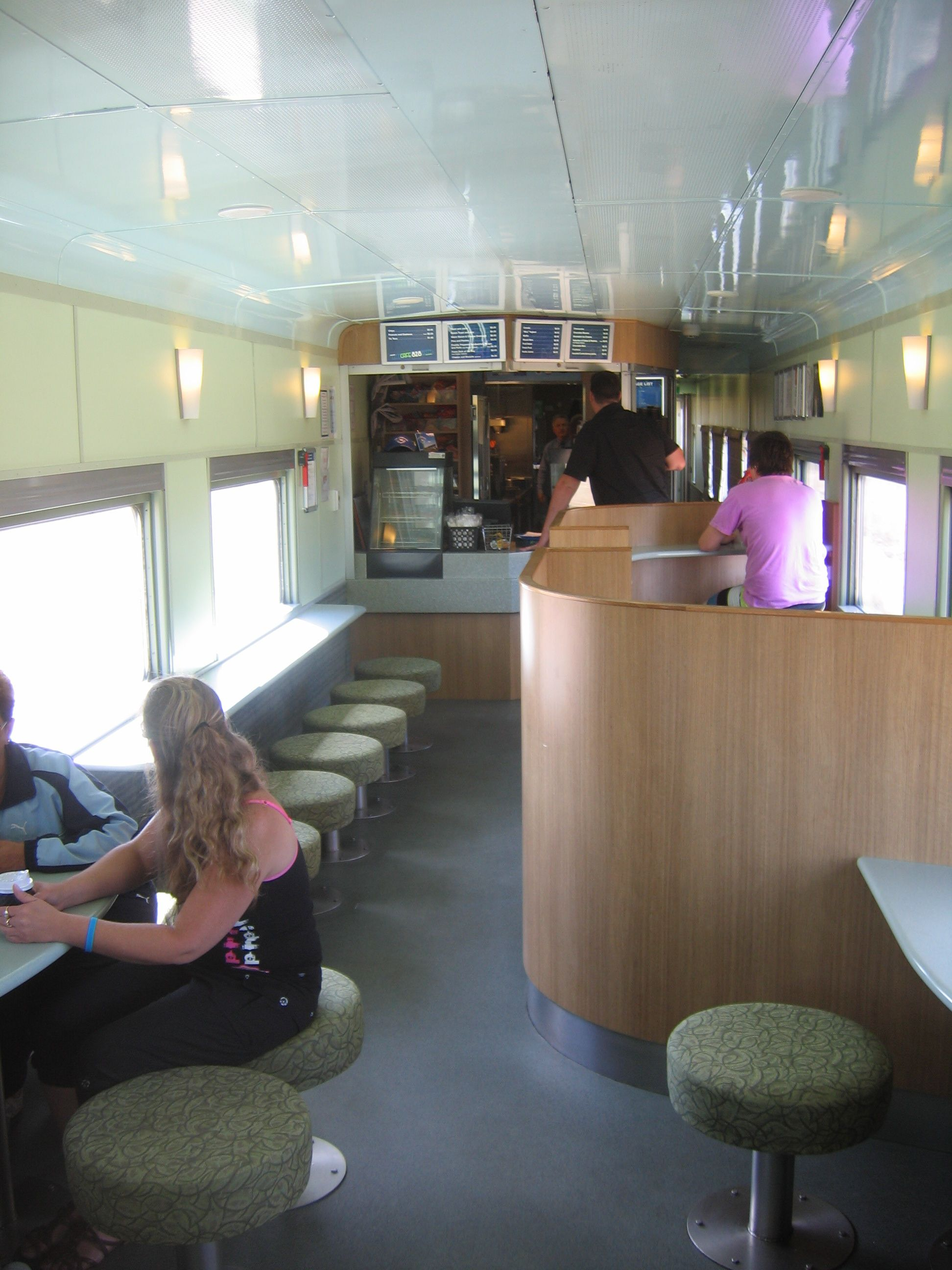 The Overland restaurand-car